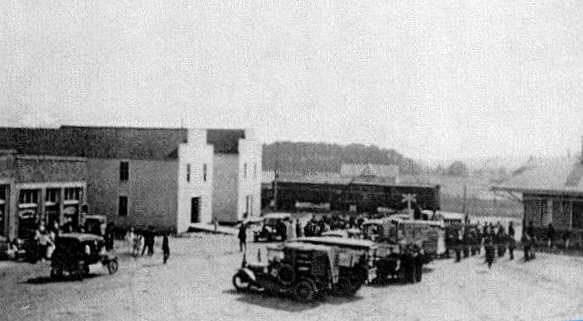 World War I-era view along Morganton Road in Greenback, Tennessee, United States. The Greenback Depot is partially visible on the right.